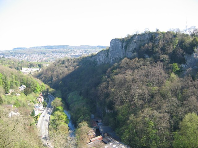 High Tor, Matlock Dale High Tor towering above the A6 in Matlock Dale, as viewed from the Heights of Abraham cable car.